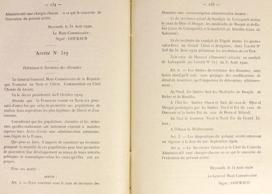 Arrete No 319 Delimitant le Territoire des Alaouites